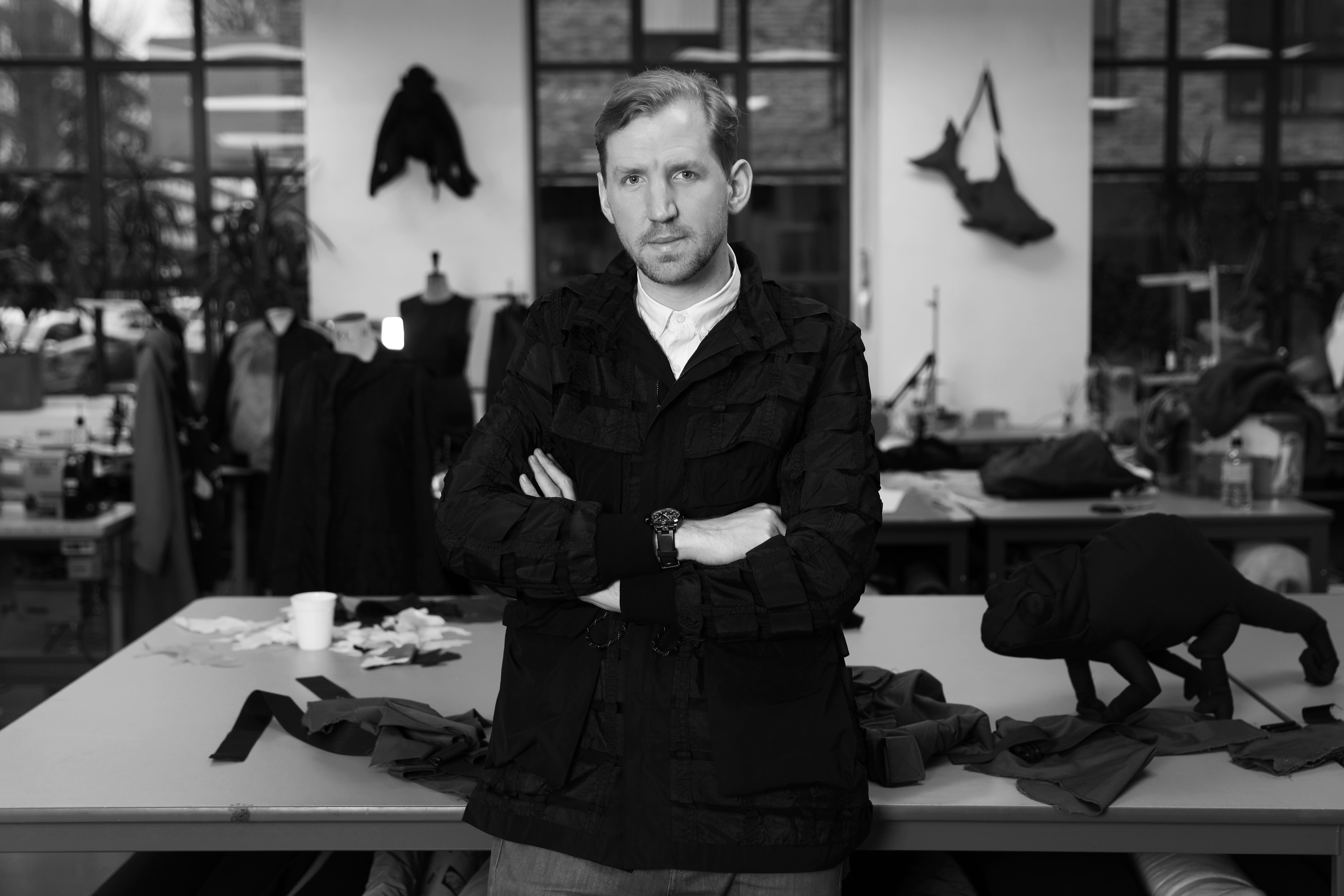 Christopher Ræburn shot in his studio in East London.